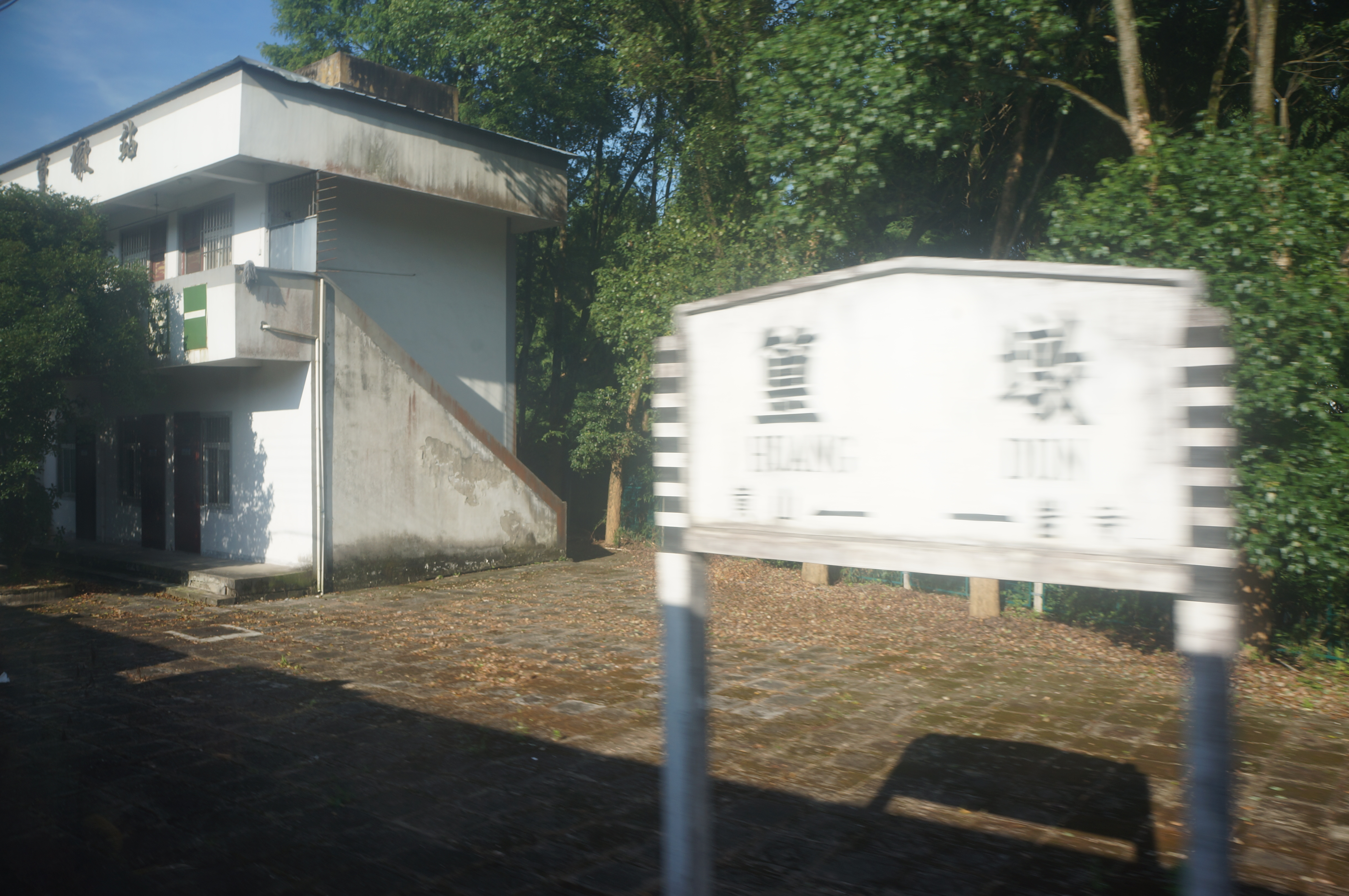 201806 Nameabord of Huangdun Station